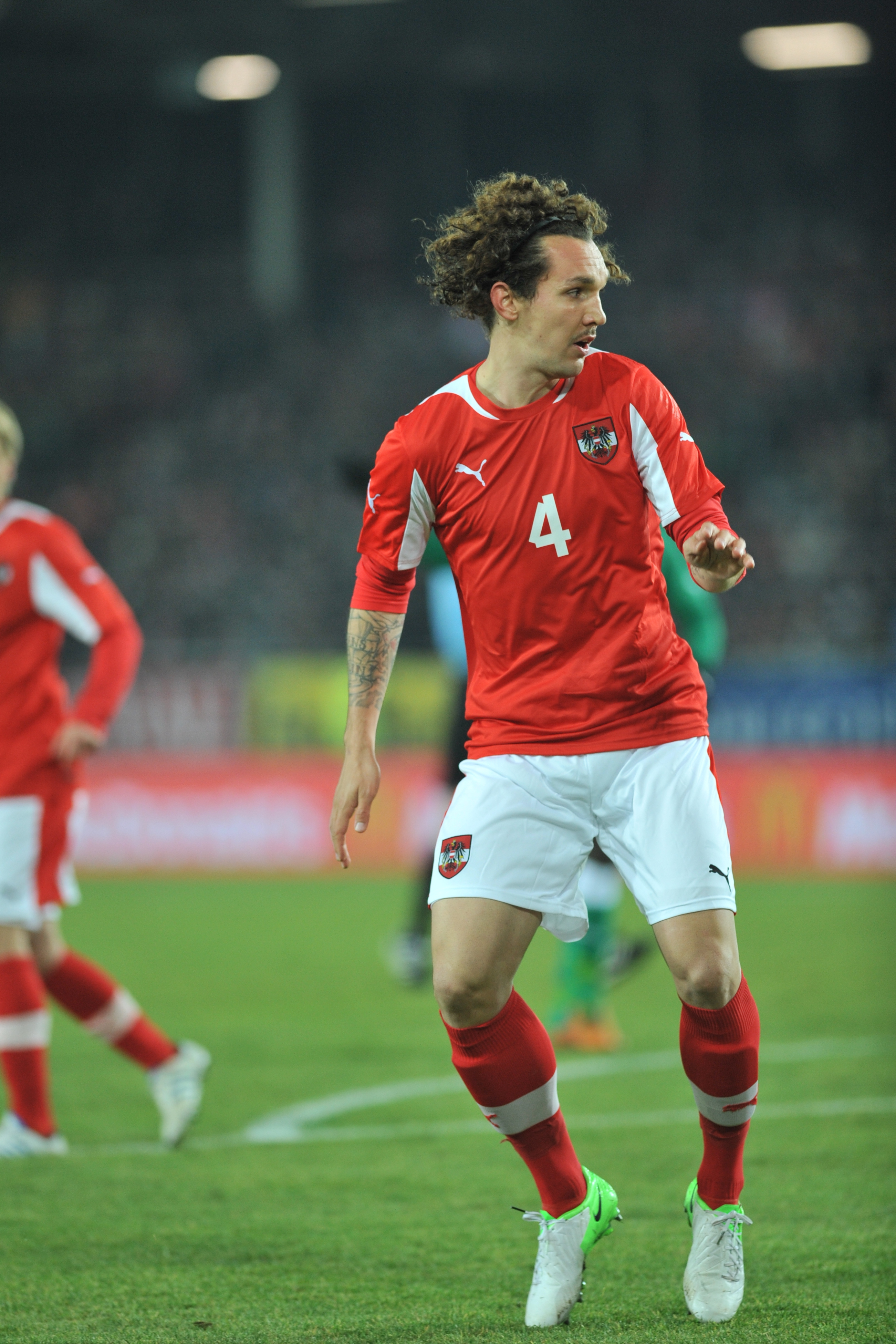 ÖFB freundschaftliches Länderspiel - Österreich vs Elfenbeinküste am 14. November 2012 The making of this work was supported by Wikimedia Austria. For other files made with the support of Wikimedia Austria, please see the category Supported by Wikimedia Österreich. 4: Emanuel Pogatetz